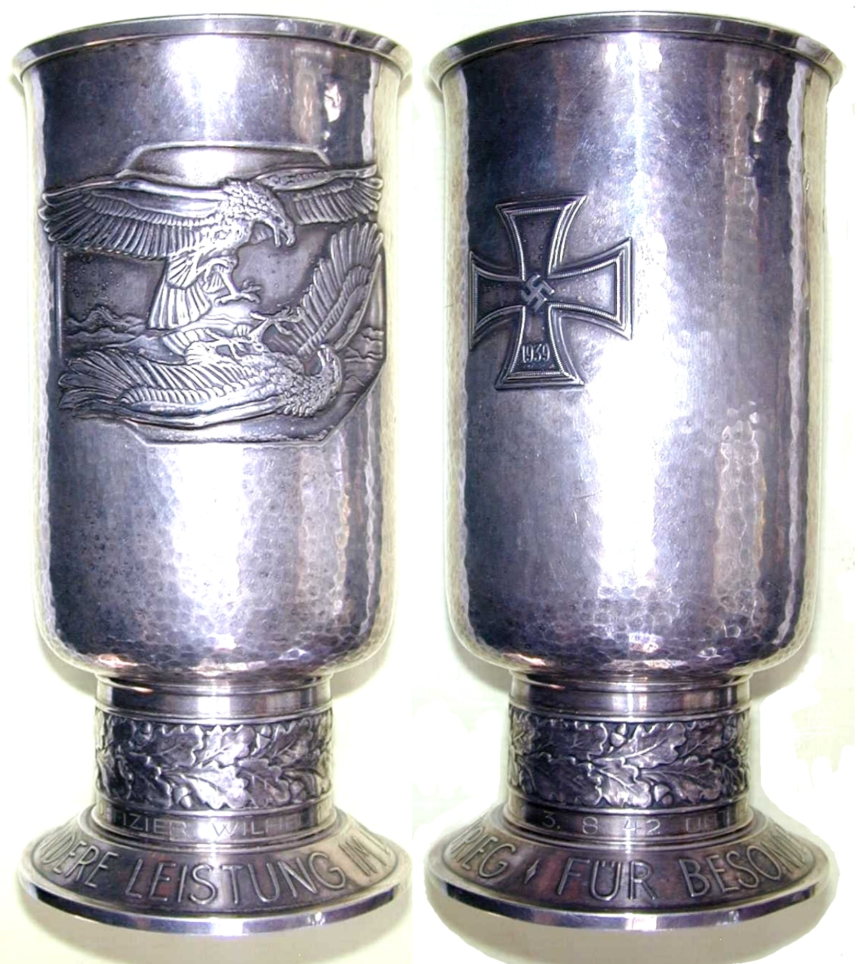 Military award of the Third Reich - Honorary Cup of the Luftwaffe